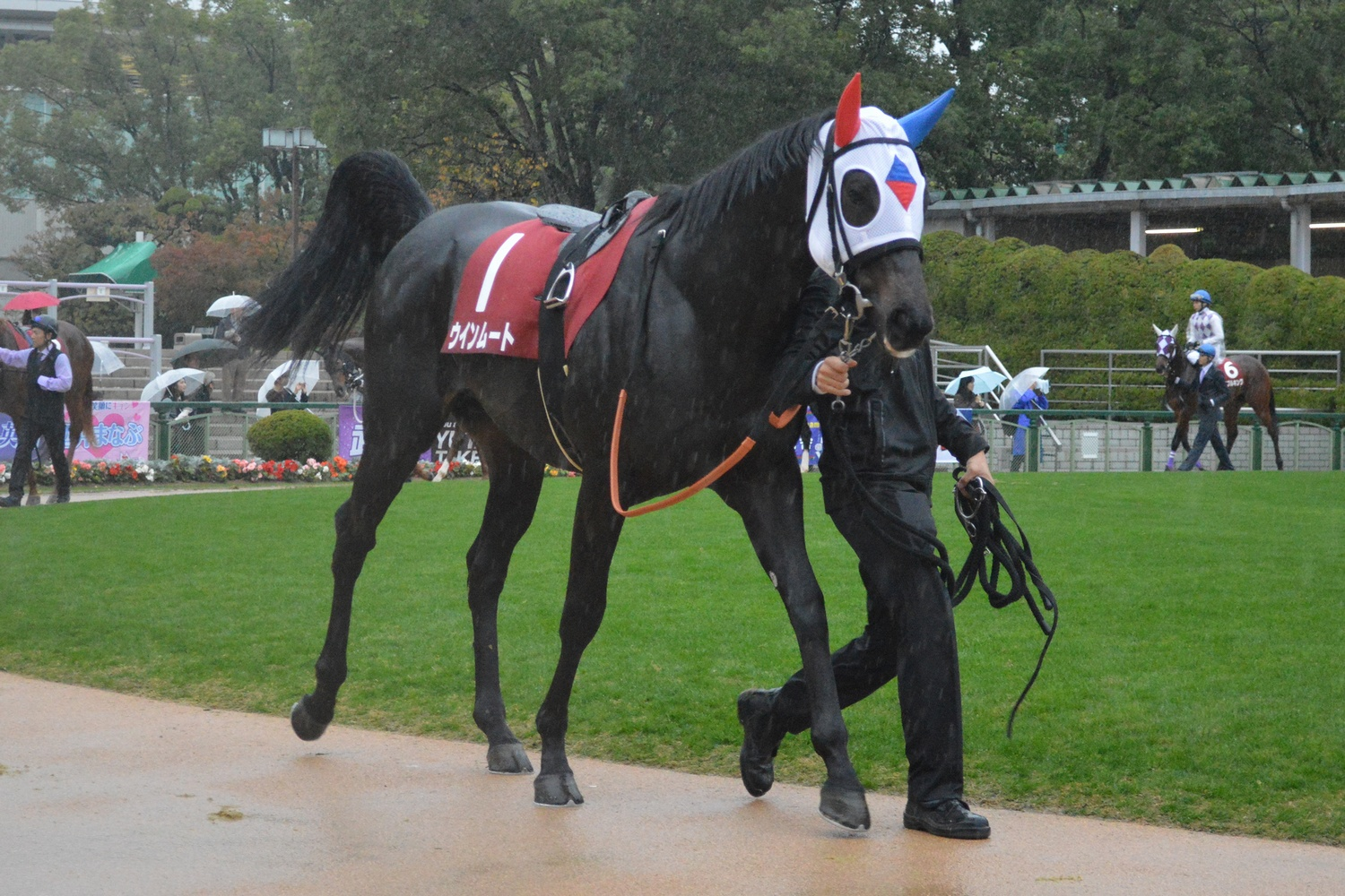 Japanese race horse Win Mut at Kyoto racecourse.